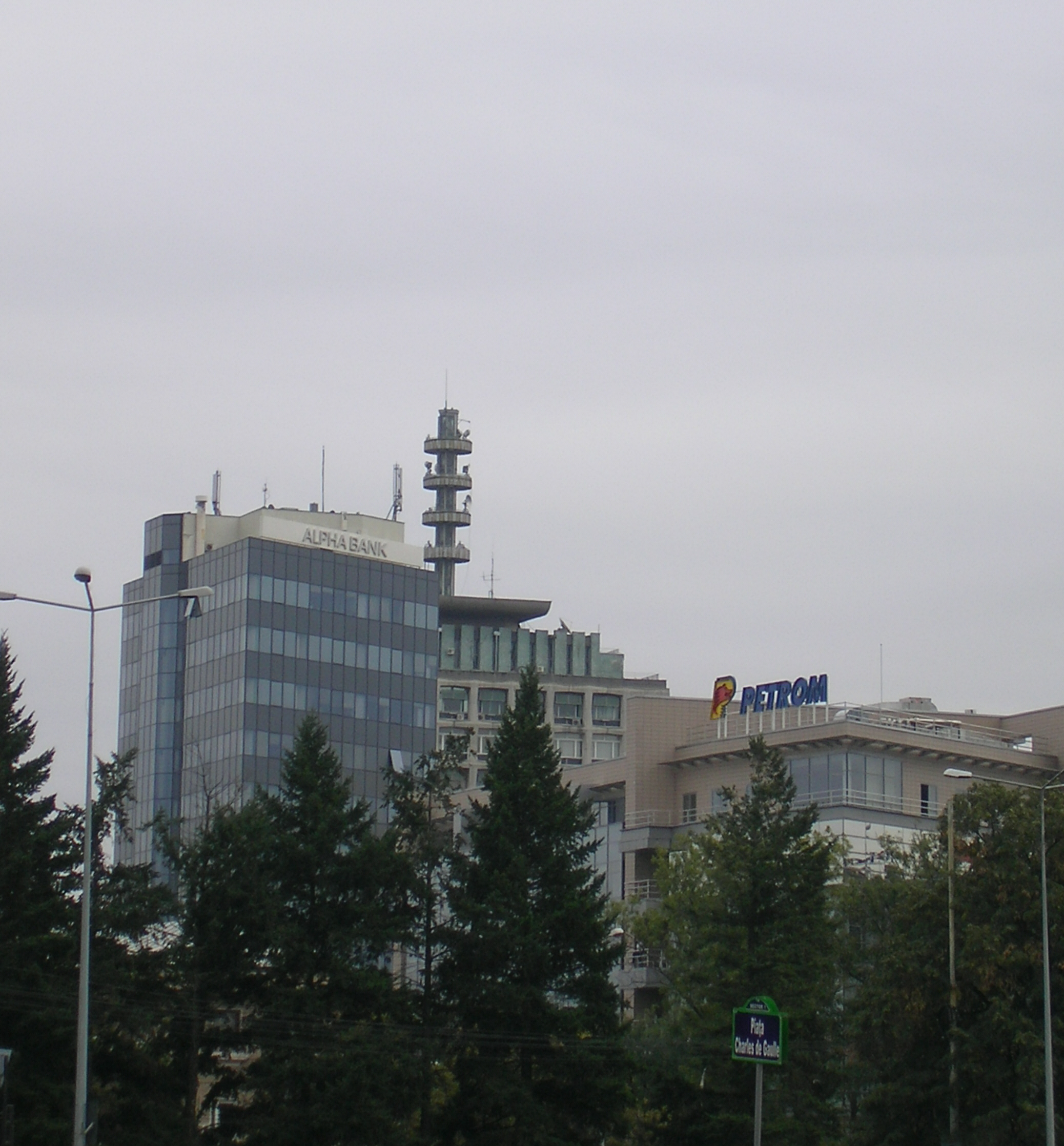 Alpha Bank and Petrom branches in Bucharest's Charles de Gaulle Sq., with the National Television building visible in the background